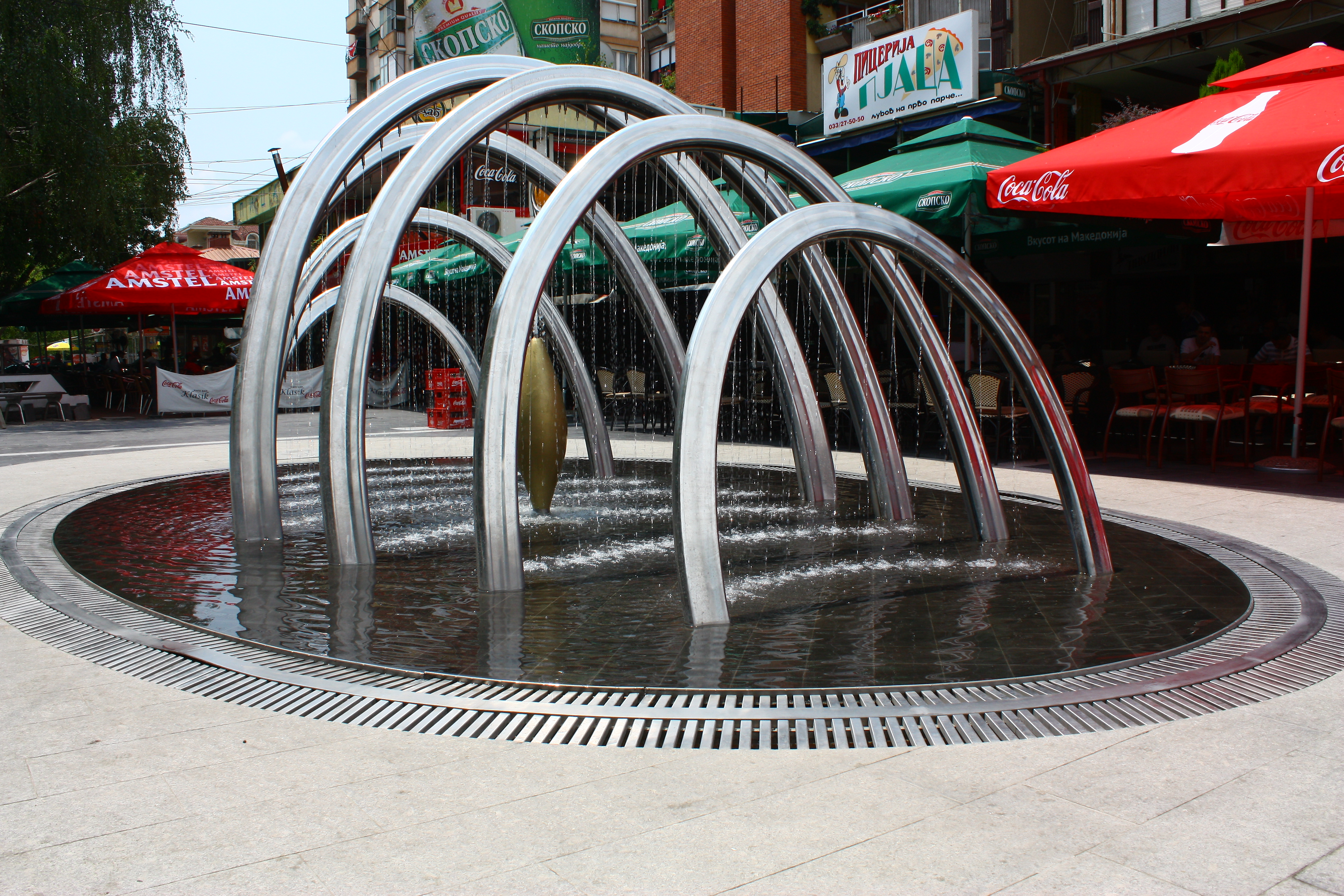 Kočani, Macedonia